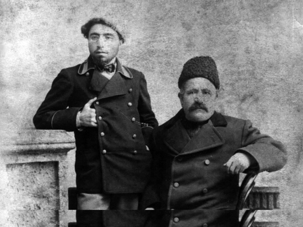 Viktor Hambardzumyan's Father and Grandfather